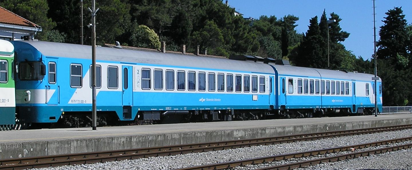 A Slovenian 711 series train